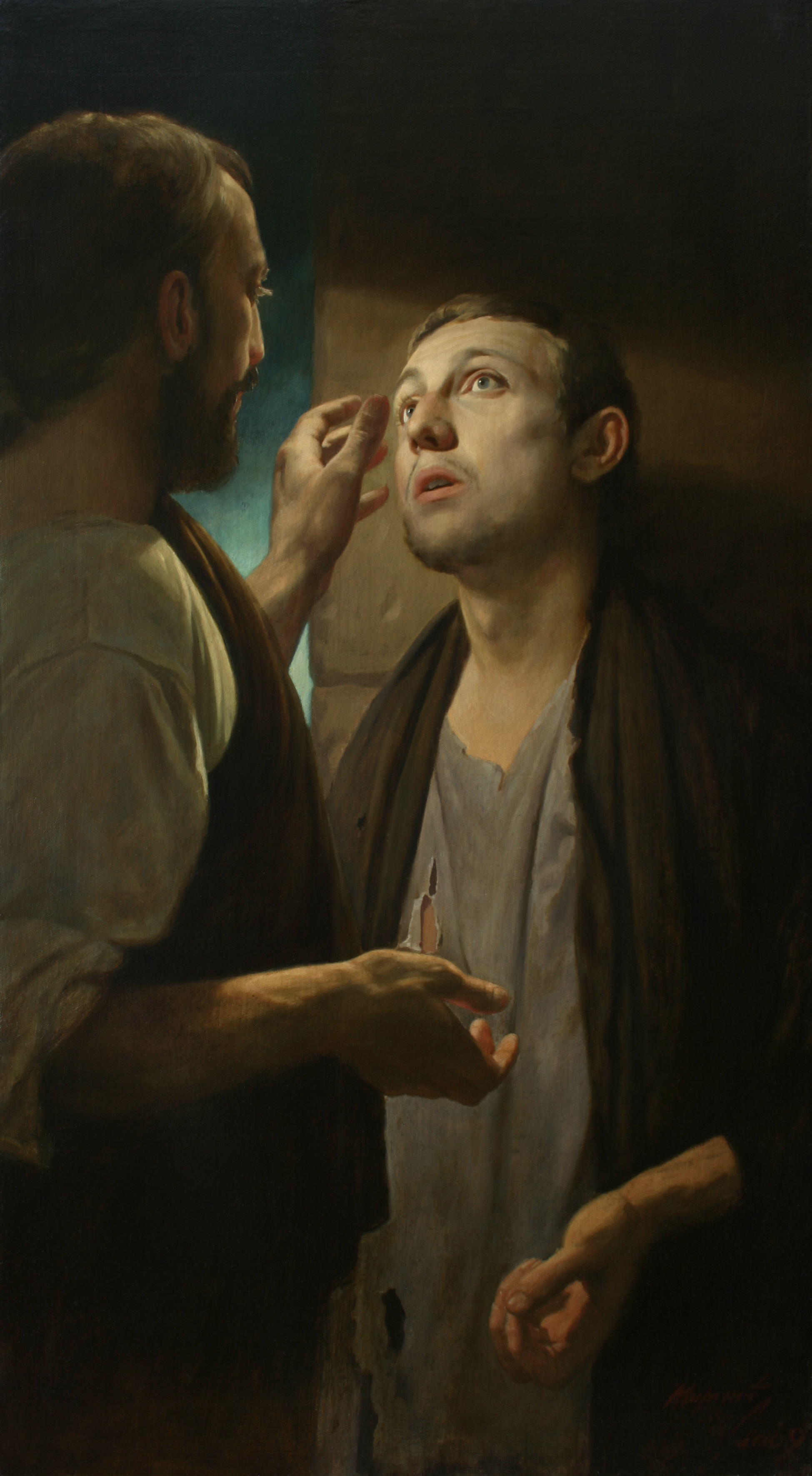 Christ and the pauper. Healing of the blind man. 2009. Canvas, oil. 100 x 55. Artist A.N. Mironov